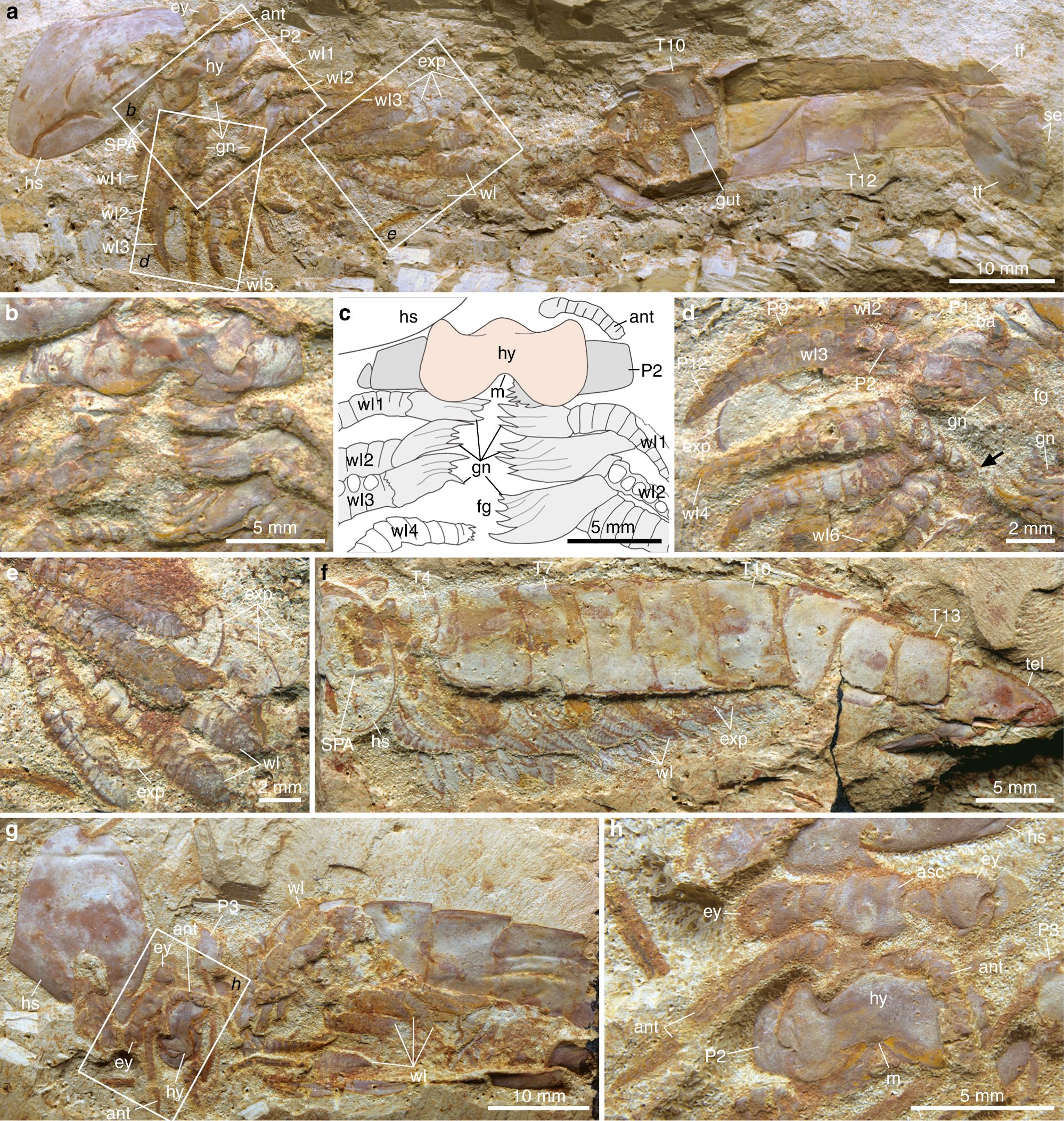 Alacaris multinoda from the Cambrian (Stage 3) Xiaoshiba Lagerstätte. a–e YKLP 12268 (holotype). a Complete individual in ventral view showing disarticulated head shield, appendicular organization, trunk tergites, and tailspine with paired flukes. b Details of area b, showing antennae, hypostome, SPAs, and three sets of walking legs with differentiated gnathobasic protopodites forming a ventral food groove. c Interpretative drawing of b. d Close-up of area d, showing multisegmented endopods with prominent protopodites, followed by walking legs with spinose endites (arrowed). e Close-up of area e, showing multisegmented endopods and flap-like exopods. f YKLP 12269, lateral view of a complete individual. g YKLP 12276, specimen with disarticulated head shield, showing organization of the anterior region. h Close-up of area h, showing the anterior sclerite with stalked eyes, the insertion of the paired antennae close to the anterior edge of the hypostome, and the proximal portions of the SPAs. ant: antenna, asc: anterior sclerite, exp: exopod, ey: eye, fg: food groove, gn: gnathobase, gut: alimentary canal, hs: head shield, hy: hypostome, m: mouth, Pn: podomeres, se: setae, SPA: specialized post-antennal appendage, tel: tailspine, tf: tail fluke, Tn: tegites, wln: walking legs